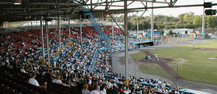 taken in 2002